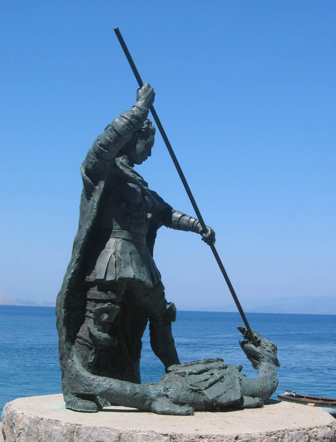 St.George, sculpture in village Jurjevo near Senj, croatian Adriatic coast